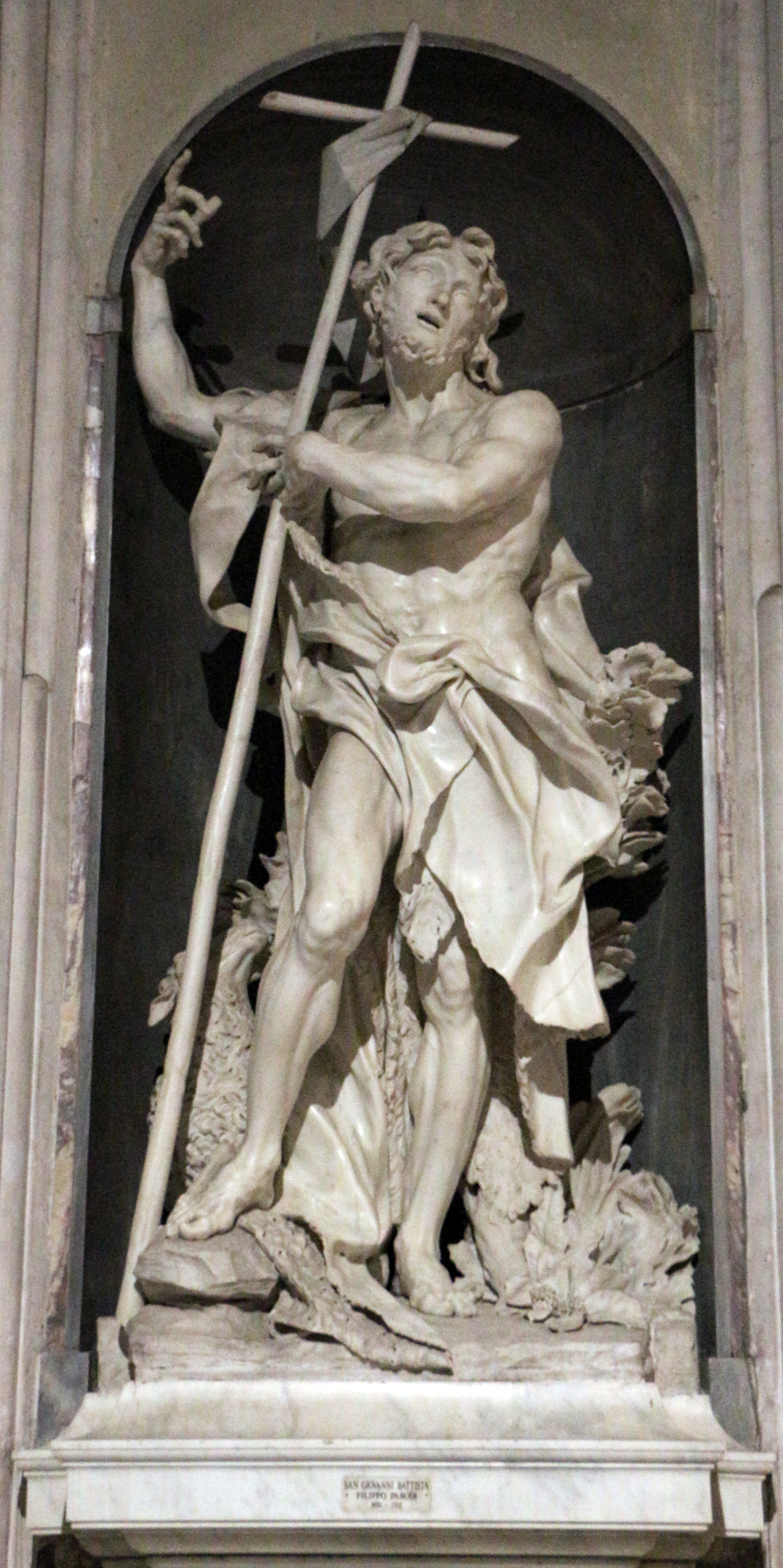 Santa Maria Assunta di Carignano